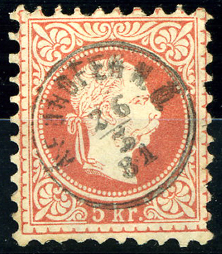 5 kreuzer, Stamp of Austria issue 1874, cancelled at Neuhofen (Lower Austria) in 1881